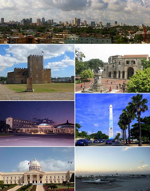 Montage of Santo Domingo, the capital and largest city in the Dominican Republic.